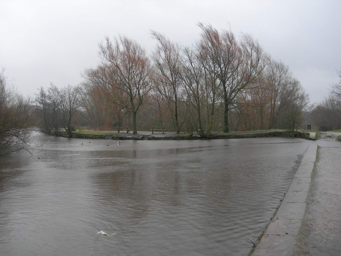 Daisy Nook Country park, Waterhouses Junction, with Fairbottom Branch coming in from left, and the single lock down on the main line straight ahead on the right.